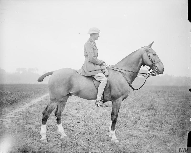 The Battle of Messines, June 1917 Brigadier-General F. W. Ramsay, the Commander of the 48th Brigade, 16th Irish Division, on horseback. 11 June 1917.